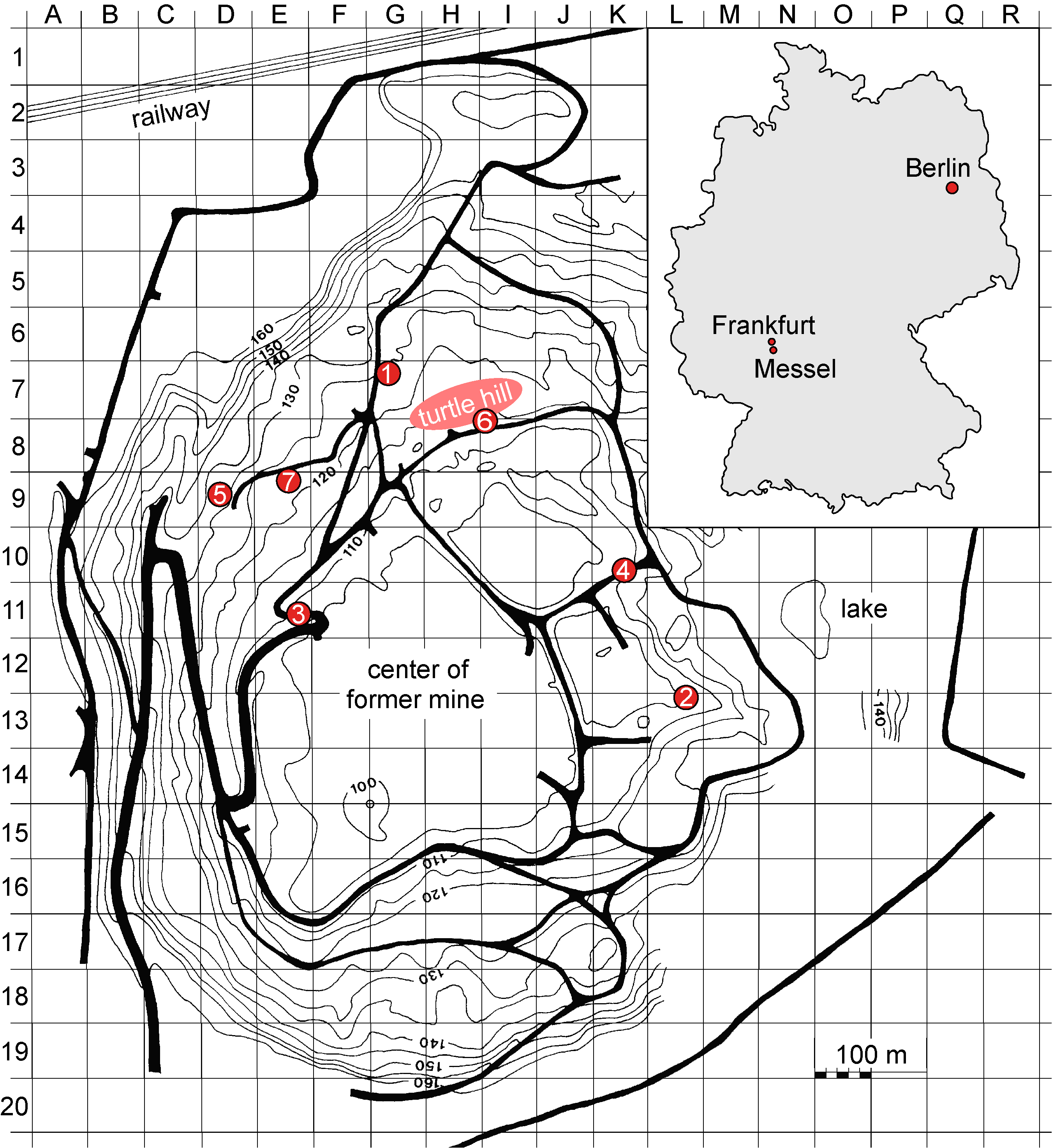 Maps showing the provenance of Darwinius masillae, new genus and species, from Messel in Germany. Inset map shows the location of the town and fossil locality of Messel near Frankfurt in the southwestern part of Germany. Larger map shows the locations of Messel primates 1–7 (Table 1) within the Messel oil shale excavation. Messel primate 6 near turtle hill is the type of Darwinius masillae. It is not known where in the site Messel primate 8, type specimen of Europolemur kelleri, was found.